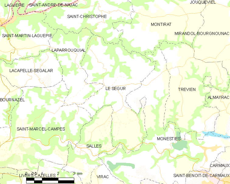 Map of French municipality Le Ségur